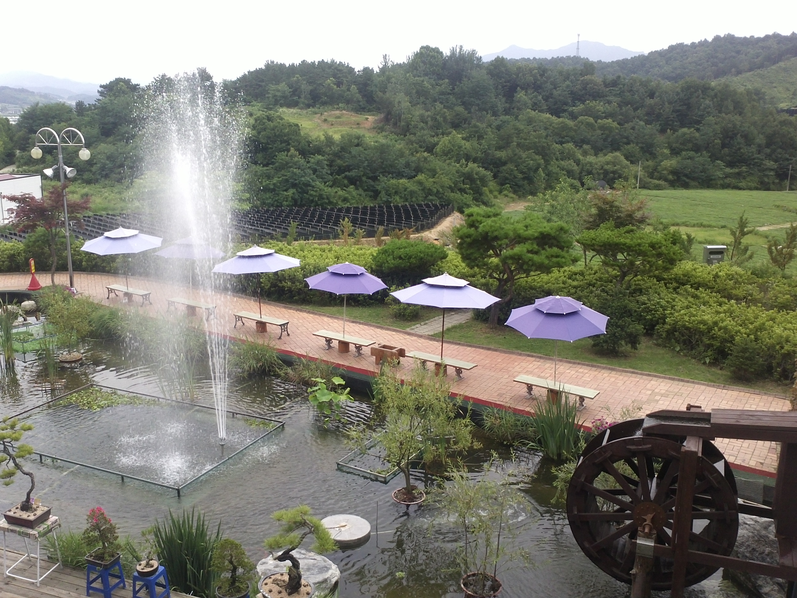 Insam Land Resting Place, Spring, Downward on Daejeon-Tongyoung Express way